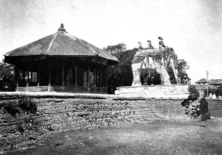 Seventeenth-century stone statue of an elephant and round rest house at Rani Pokhari, Kathmandu, circa 1930.